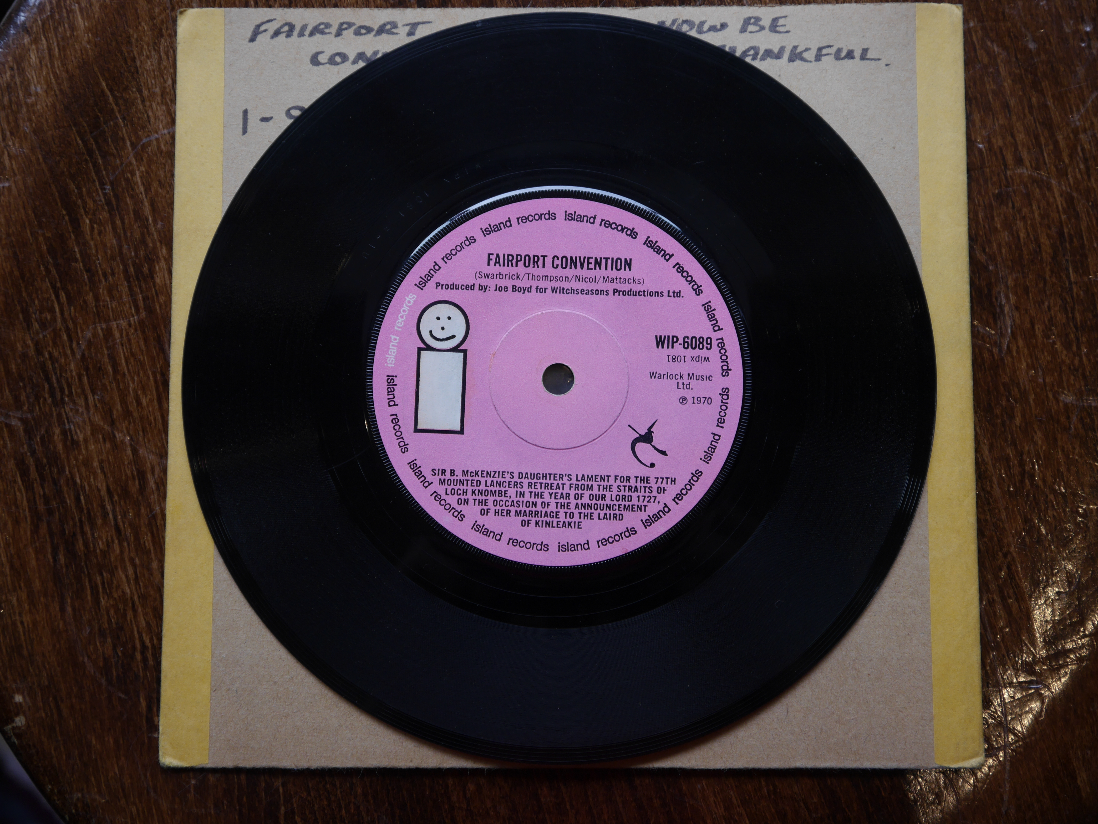 Photograph of the B side to the Fairport Convention single "Now Be Thankful" entitled "Sir B. McKenzie's Daughter's Lament For The 77th Mounted Lancers Retreat From The Straits Of Loch Knombe, In The Year Of Our Lord 1727, On The Occasion Of The Announcement Of Her Marriage To The Laird Of Kinleakie". This is the copy owned by Redrose64 and photographed at the Wikimeet in Oxford in May 2015.